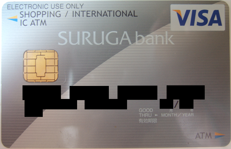 SURUGA VISA Debit Card. It's smart card of VISA debit card and ATM card at Suruga bank.